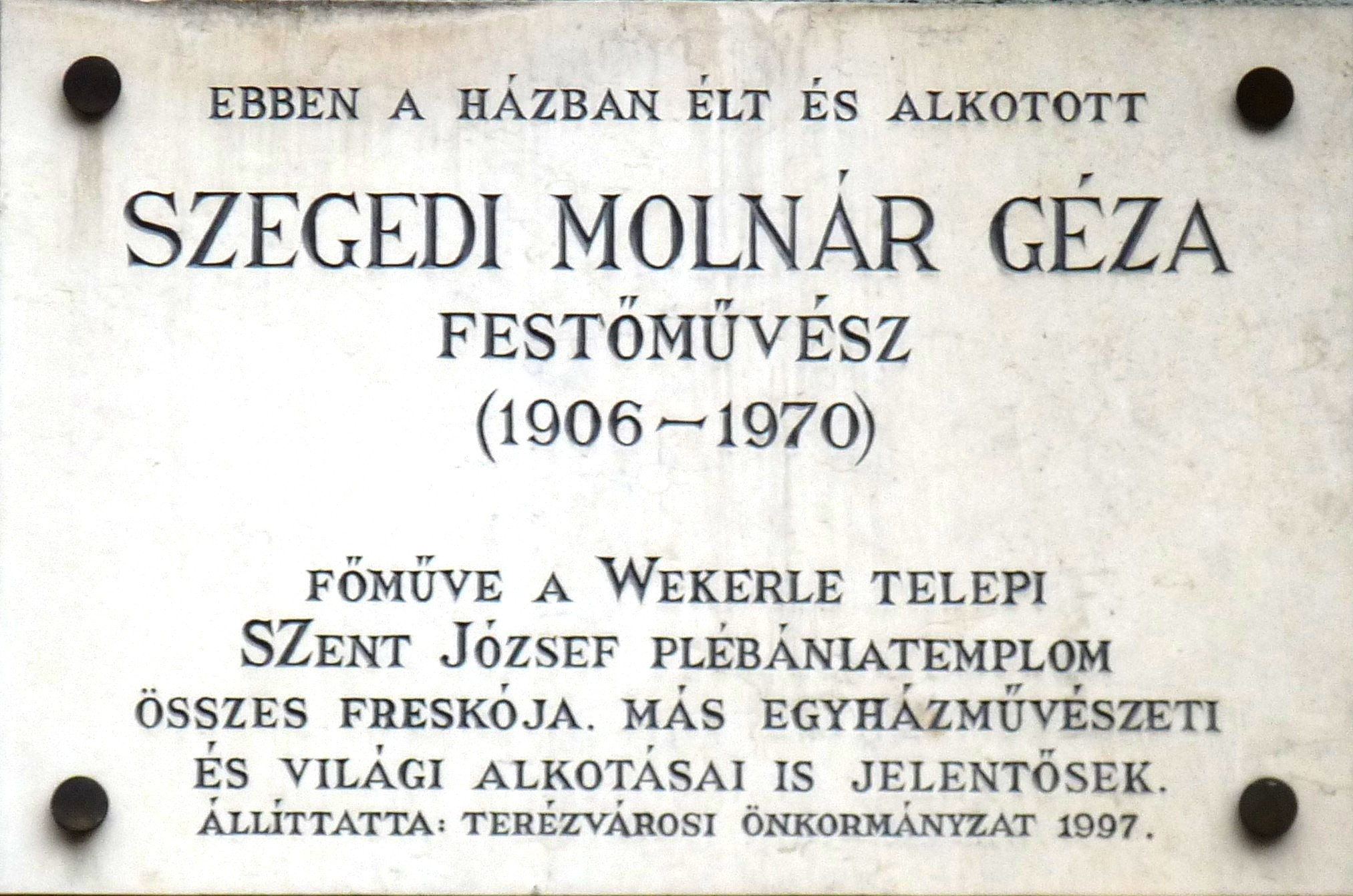 Géza Szegedi Molnár (painter) commemorative plaque in Budapest District VI, Nagymező Street No 8.